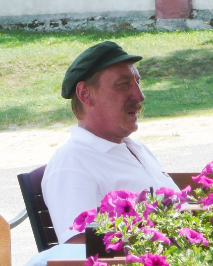 Sylwester Maciejewski - Polish actor